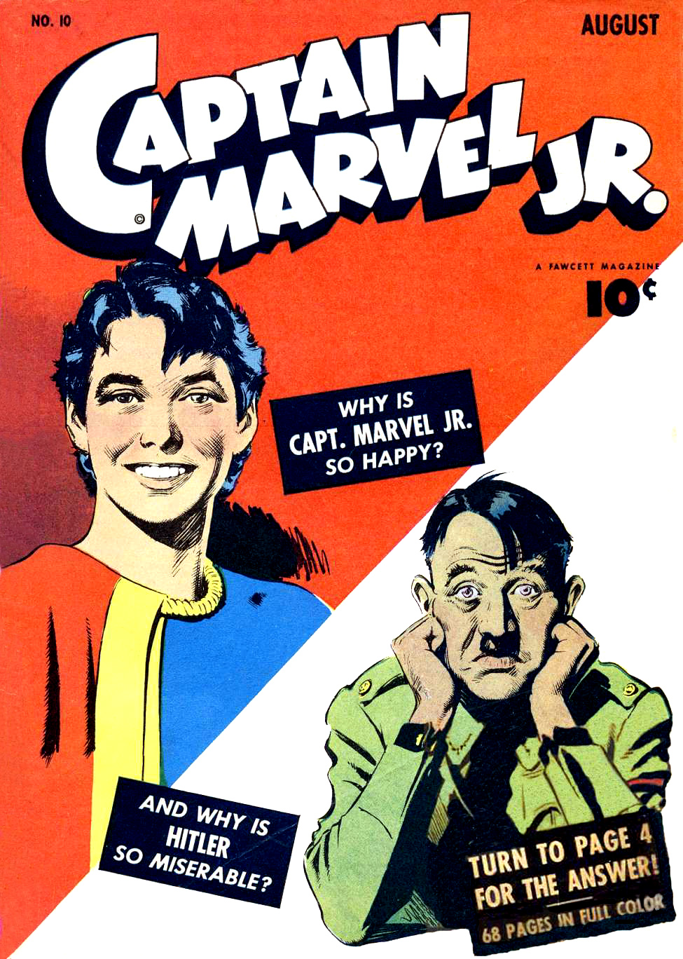 Cover of Captain Marvel Jr number 10, as published by (August 1943). This image has lapsed into the public domain, due to Fawcett failing to renew the copyright.